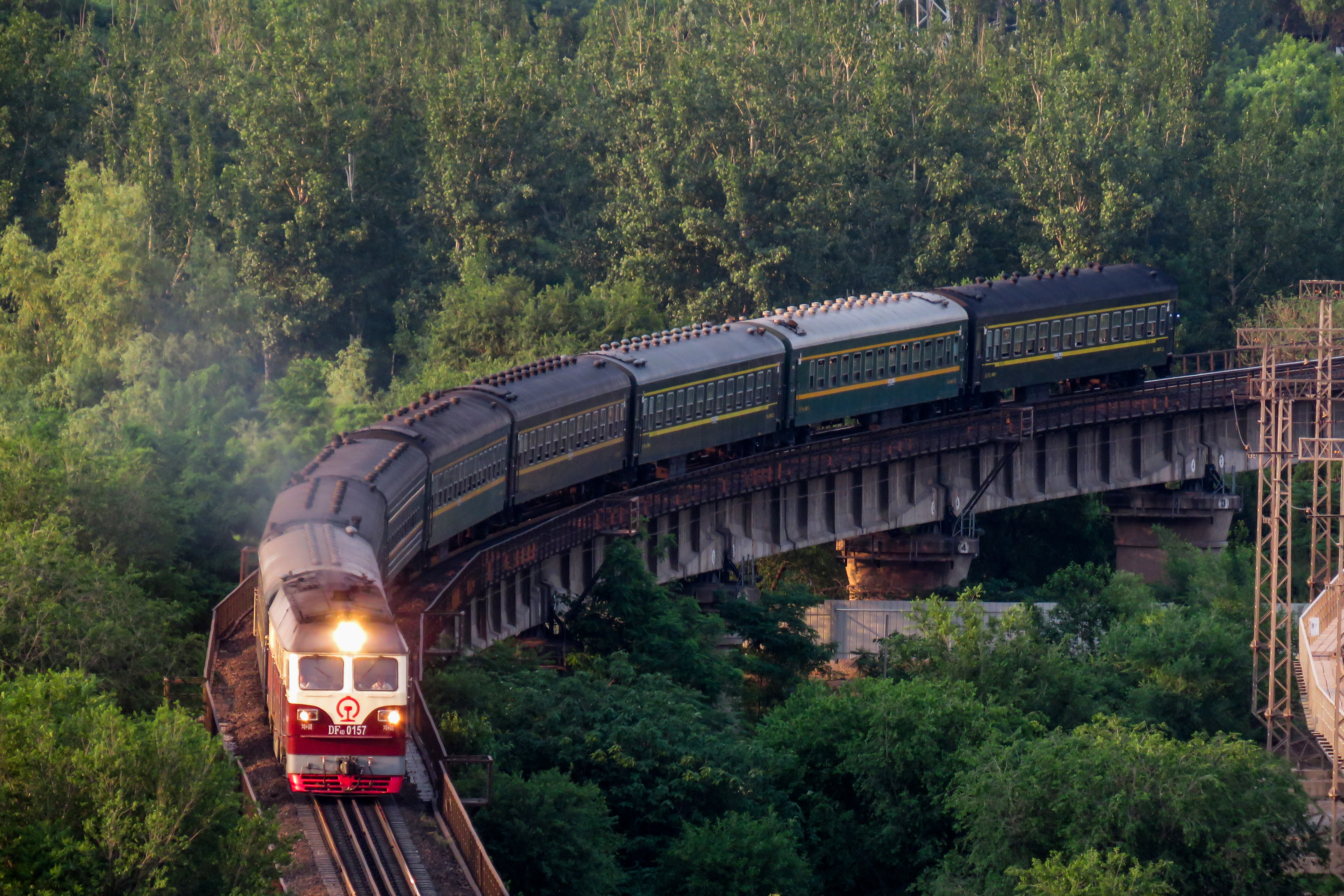 6437 to Dajian. Taken in cooperation with Dr. Shi near Wenyuan Pavilion.